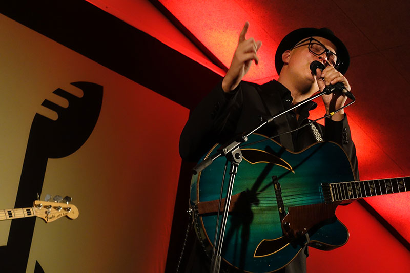 Torsten Goods at Jazzy Days Denmark 2016